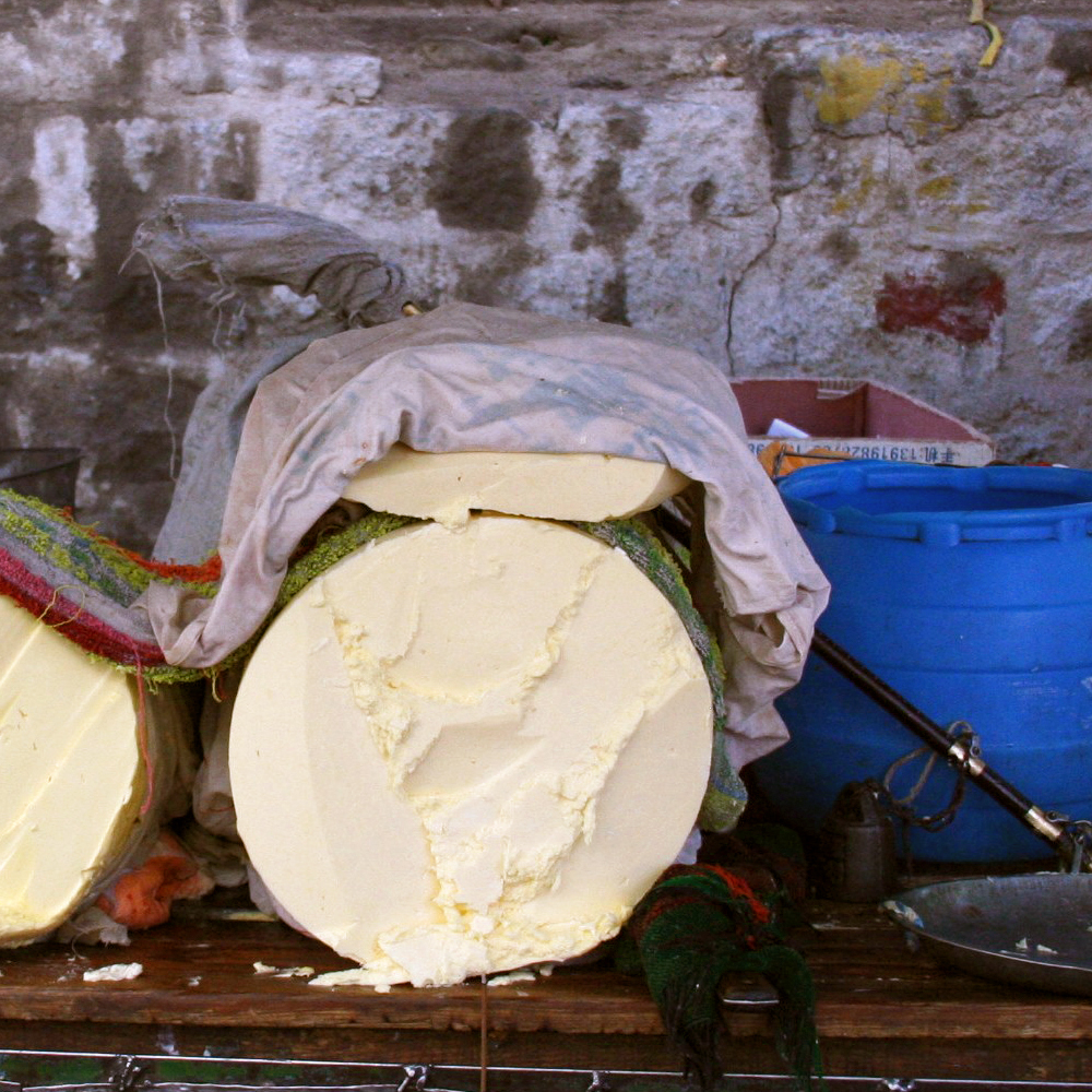 Yak butter in Lhasa street shop, cropped square version of photo by Carla Antonini